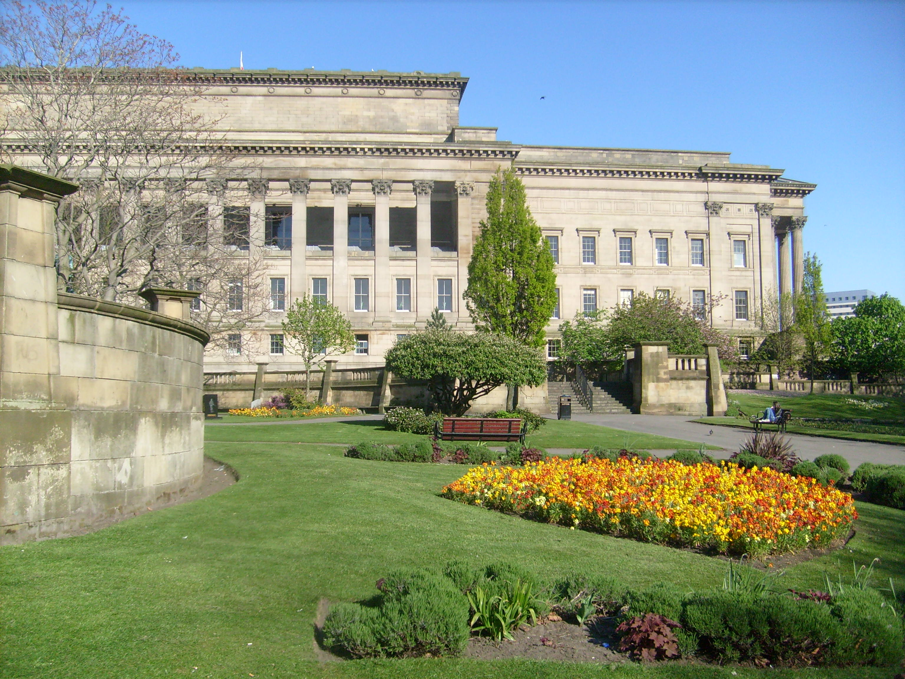 St Georges Hall, Liverpool, May 11 2010